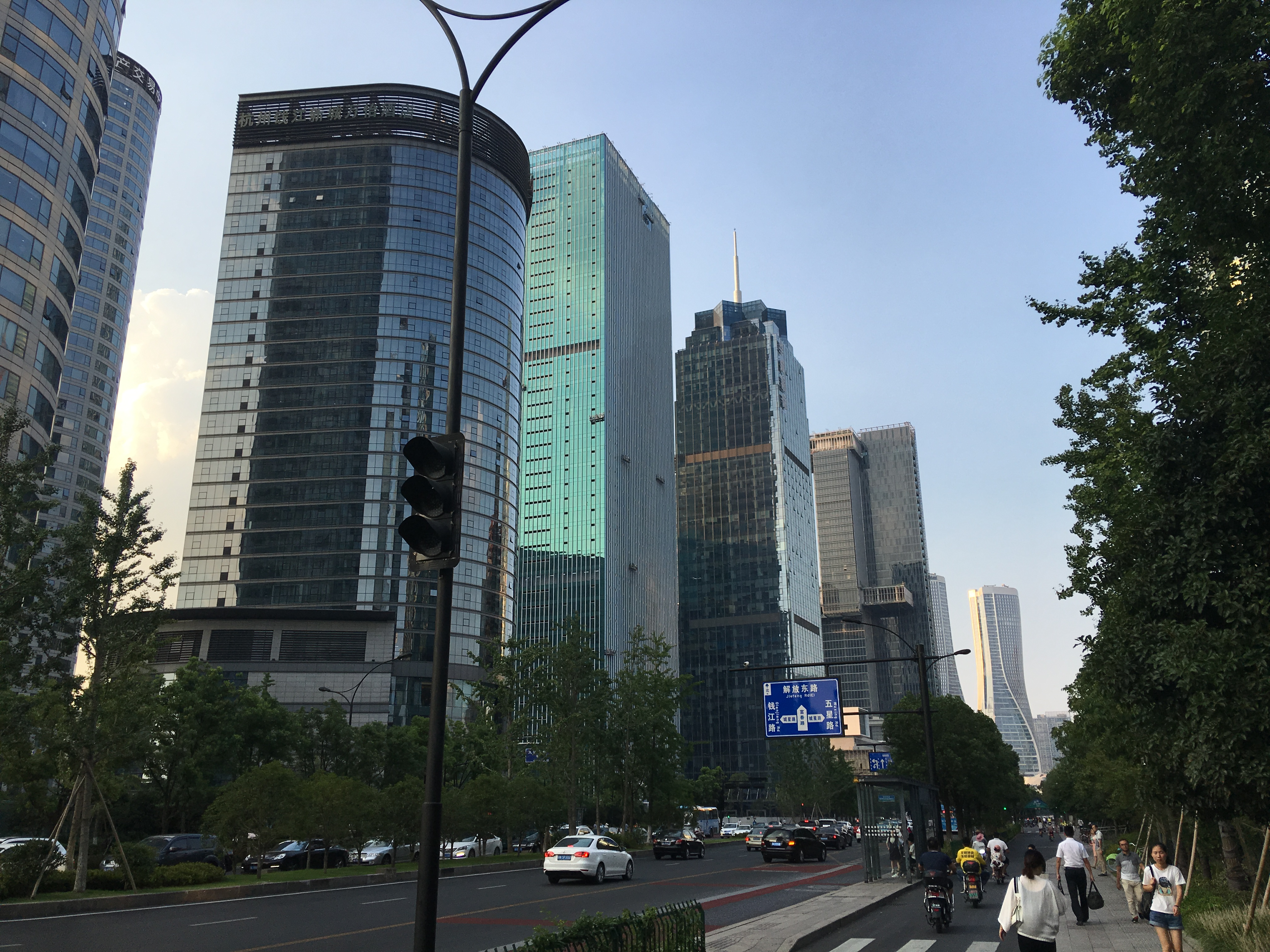 Image from the New business park around Fuchun Road and Qianjiang New Town Forest Park